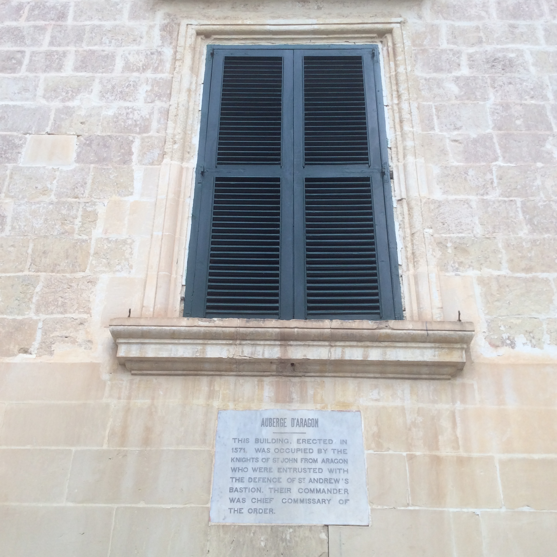 Auberge plaque commemoration Valletta, Malta